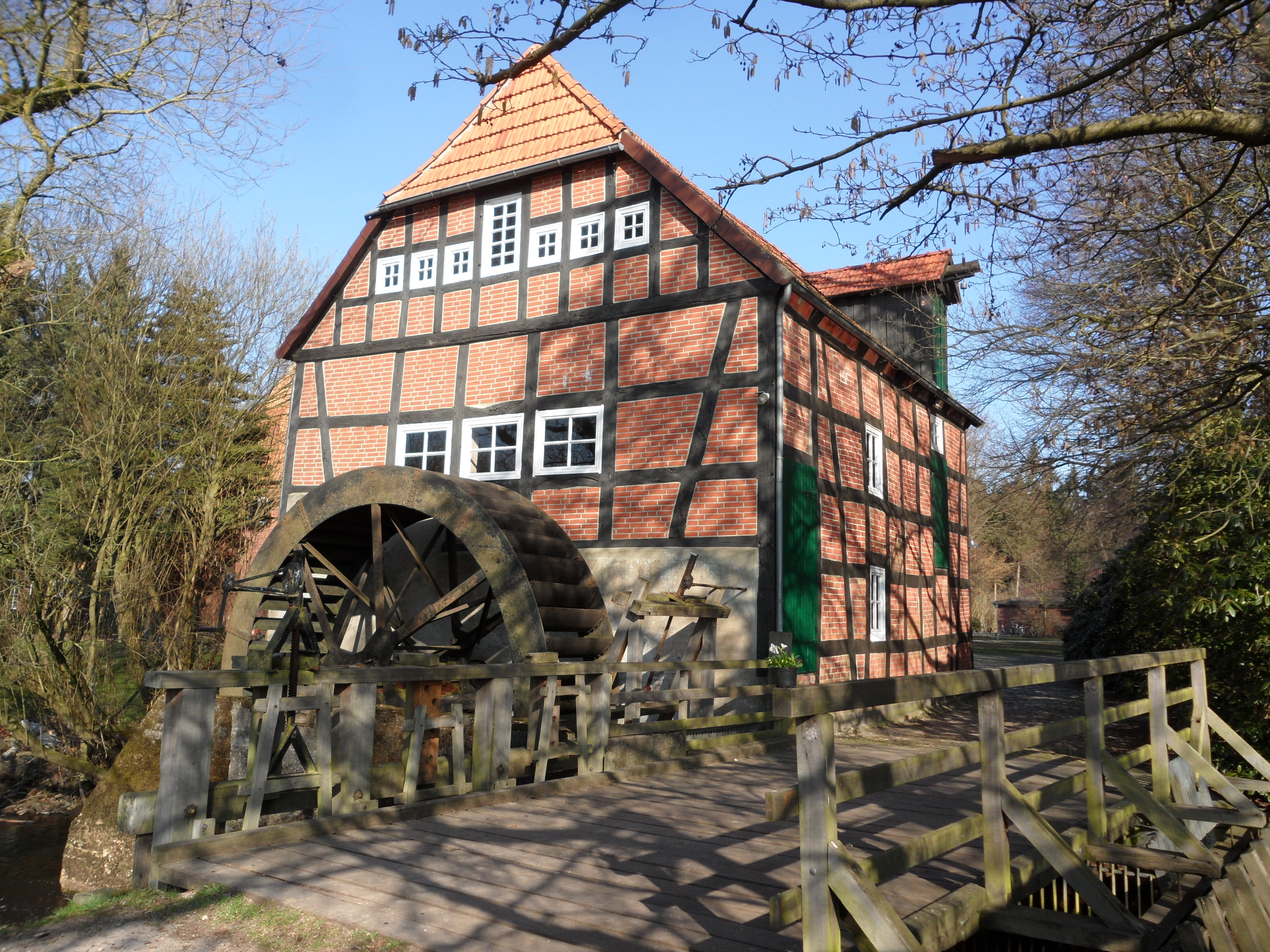 Water mill in Stuckenborstel at river Wieste